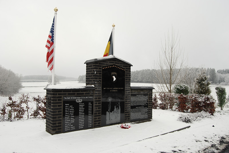 US memorial for Easy Company, 506th Infantry Regiment, 101st Airborne Division in Foy / Belgium